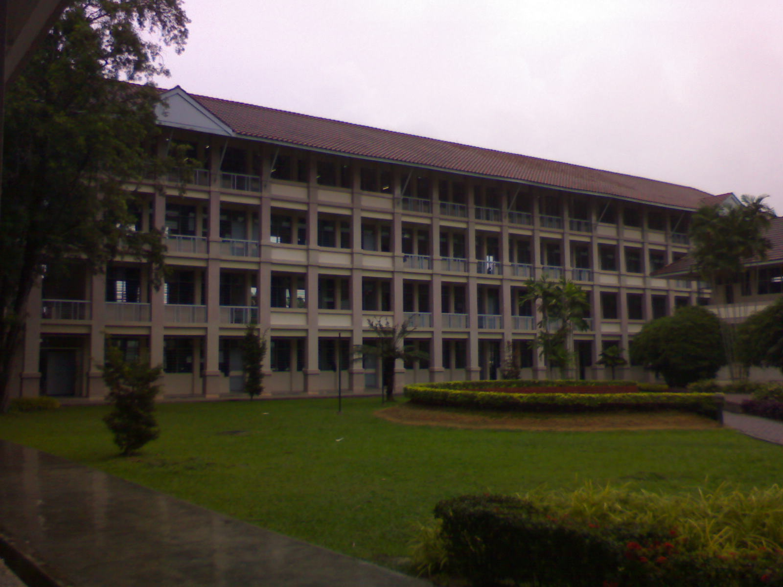 This is Block C of Chung Ling (National Type) High School.